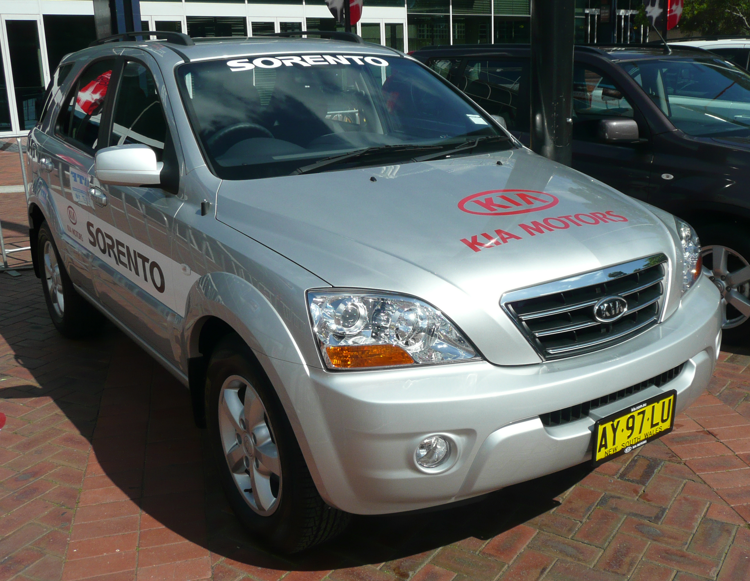 2007–2008 Kia Sorento (BL) EX-L CRDi. Photographed at the 2008 Australian International Motor Show, Sydney, New South Wales, Australia.